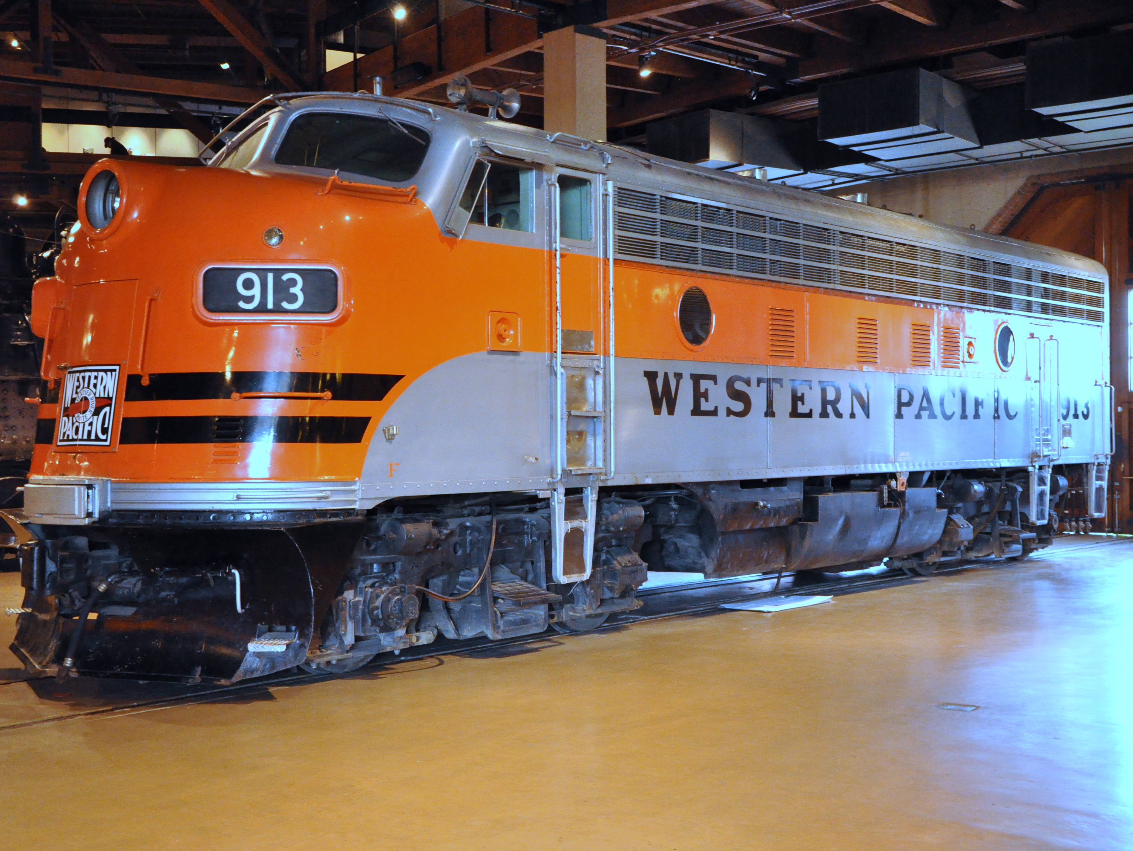 Western Pacific Railroad #913, an EMD F7 locomotive on display at the California State Railroad Museum in Sacramento.